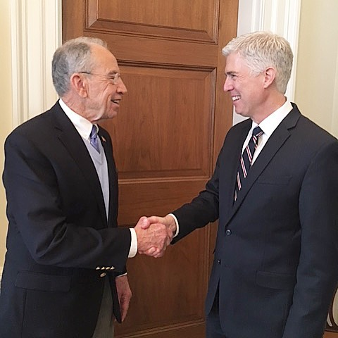 United States Senator and Chairman of the Senate Judiciary Committee Chuck Grassley meeting with United States Supreme Court nominee Judge Neil Gorsuch.